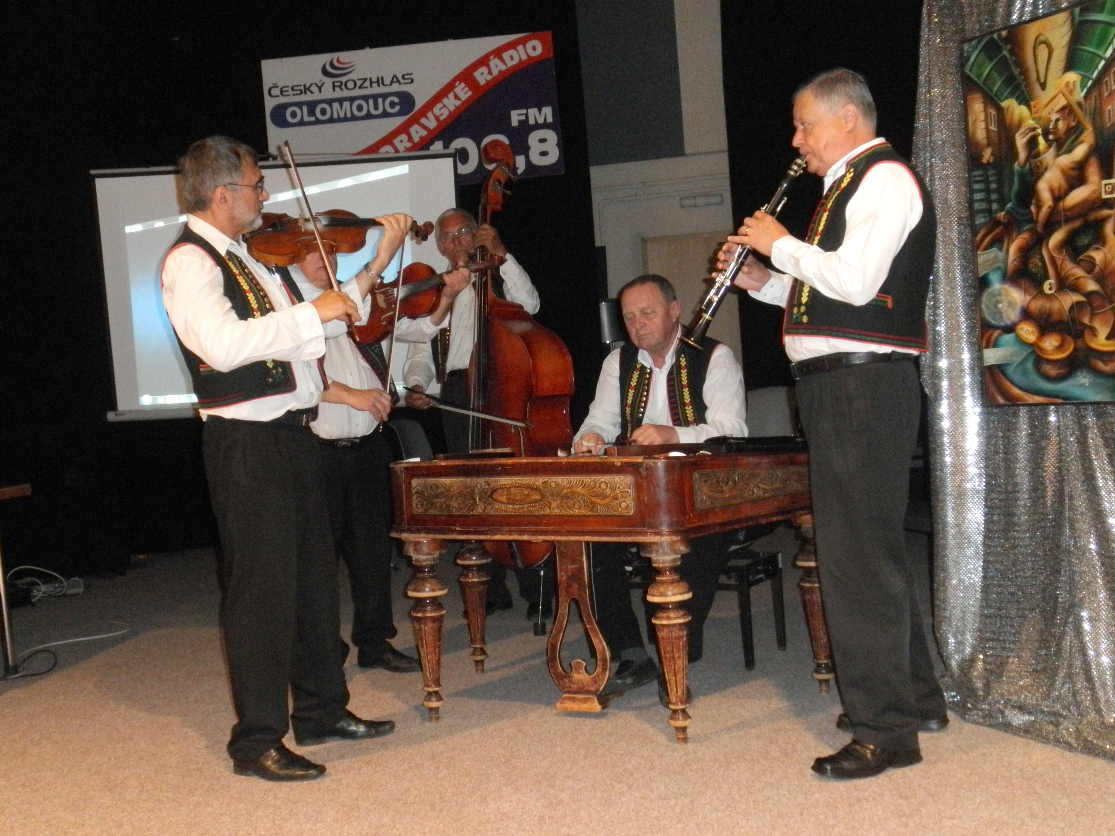 Cimbalom music group of Václav Hastík are playing in the Czech Radio Olomouc.